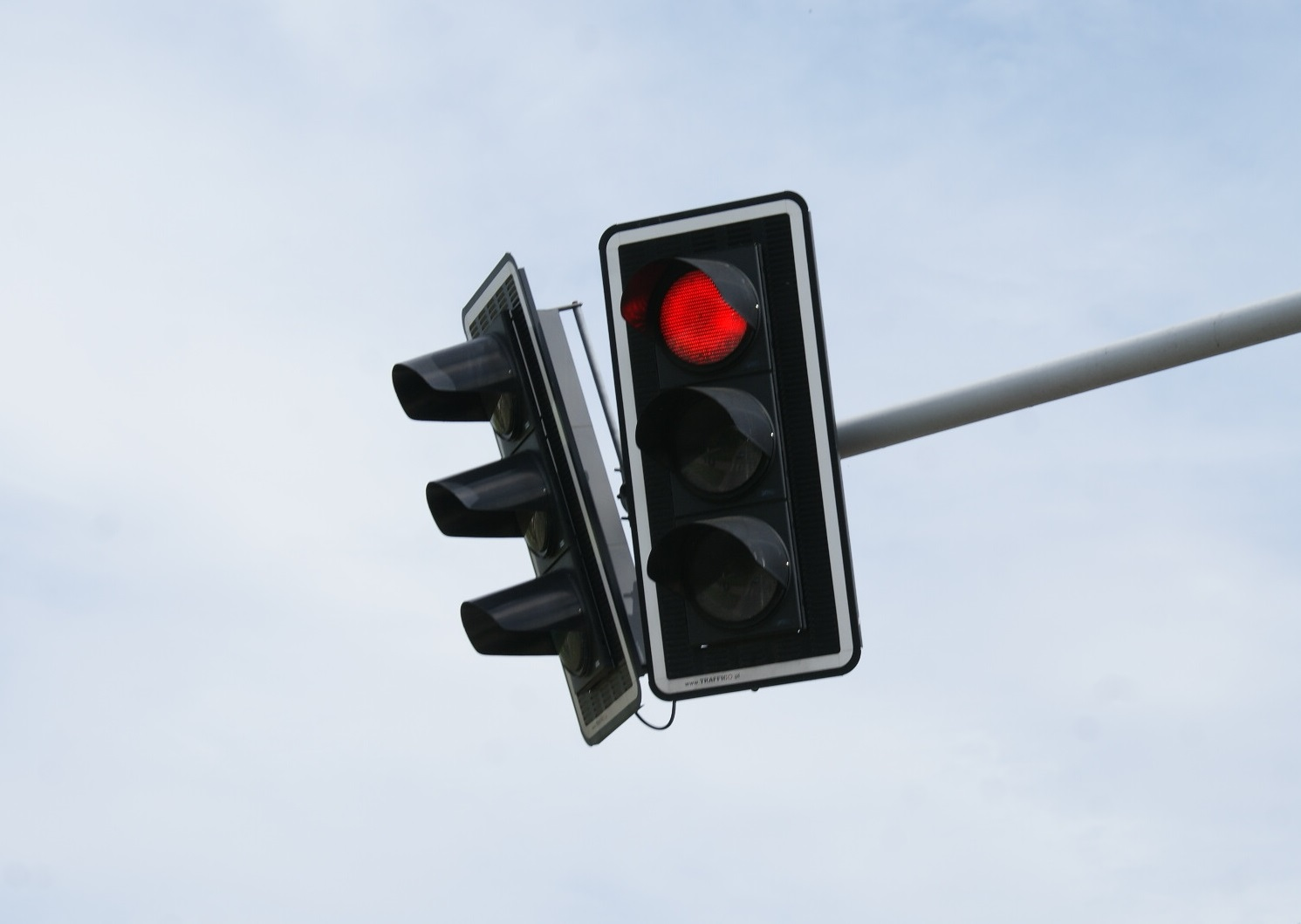 Traffic lights at red state